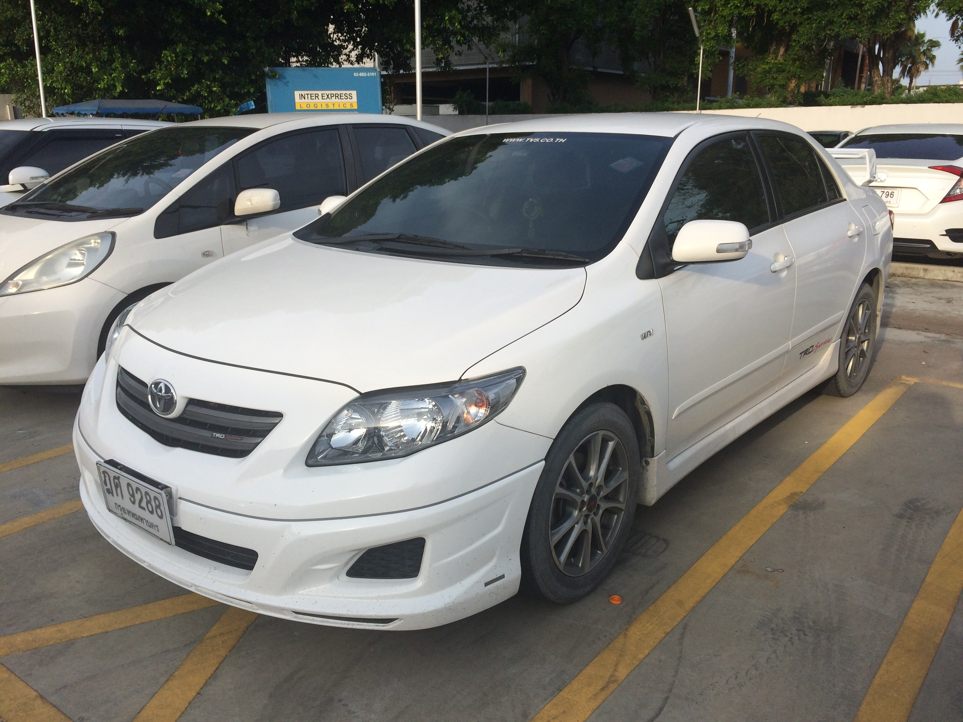 2010-2011 Toyota Corolla Altis (ZRE141) 1.6 TRD Sportivo Sedan (08-09-2017) in Bangkok Thailand.